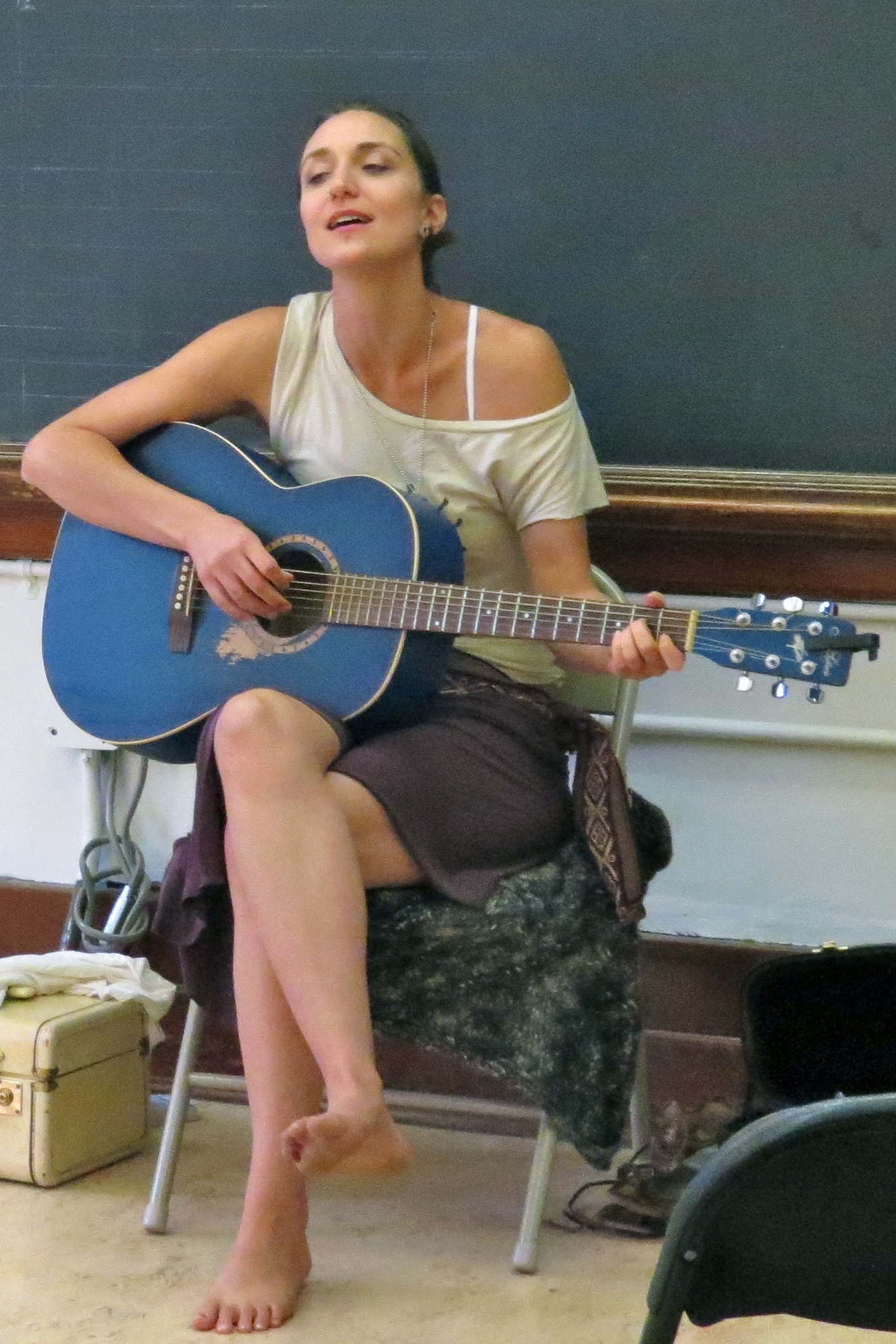 Amy Thiessen performing at the We Should Know Each Other event at King Edward School on Sunday, September 30, 2012. Image is cropped from original on FlickR.